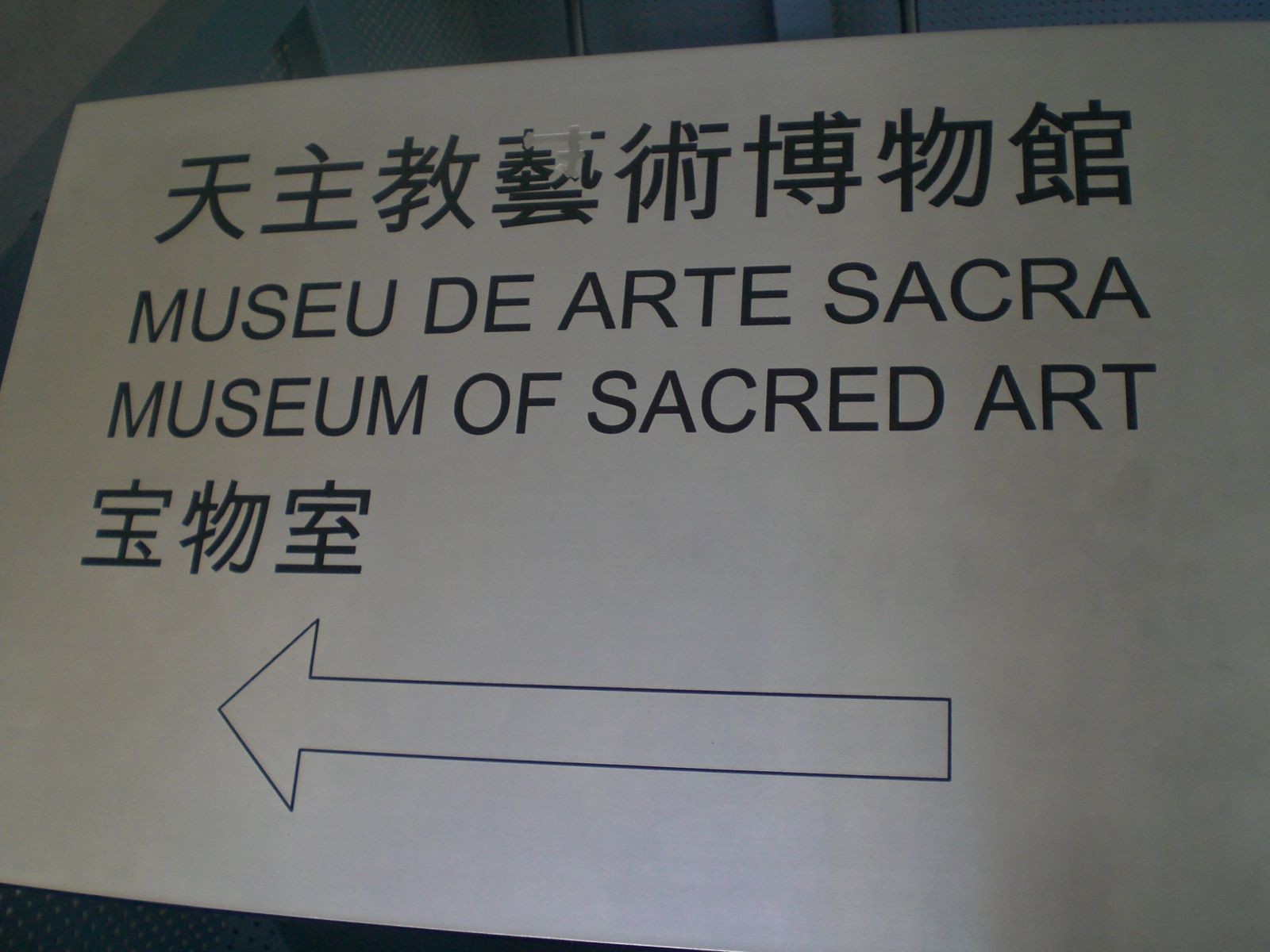 大三巴牌坊, Cathedral of Saint Paul in Macau and 天主教藝術博物館與墓室 O Museu de Arte Sacra e Cripta (Museum of Sacred Art). Photo author= Mo707